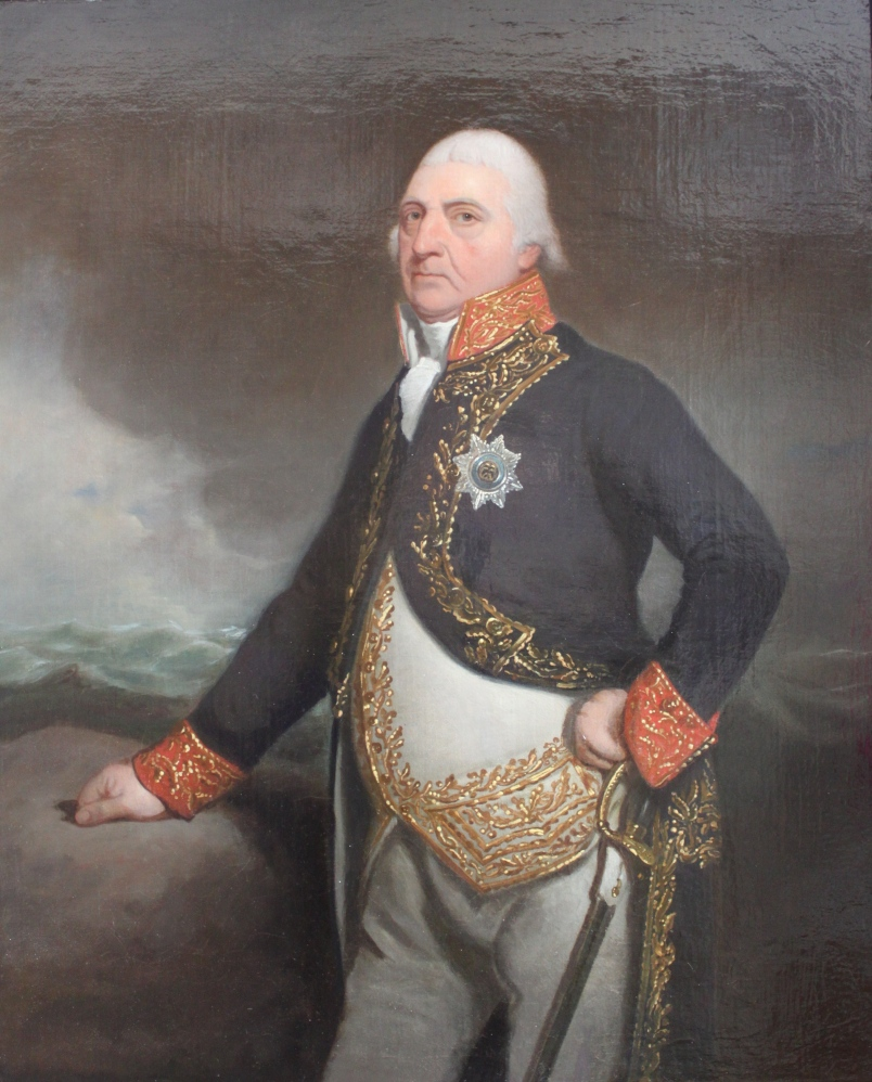 Jan Hendrik van Kinsbergen on a painting by English artist Charles Howard Hodges.